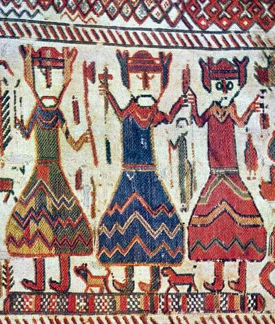 Three Scandinavian Christian kings on the 12th century Skog church tapestry.